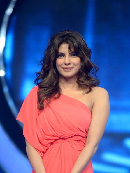 Priyanka Chopra at Indian Idol 6